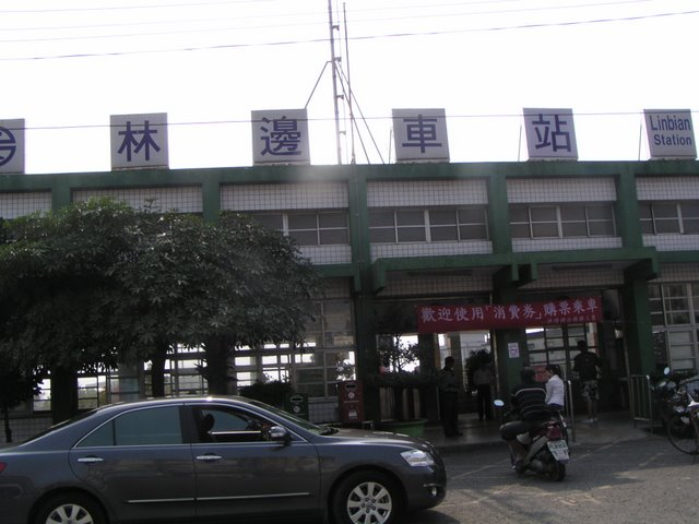 Taiwan Railway Administration Linbian Station